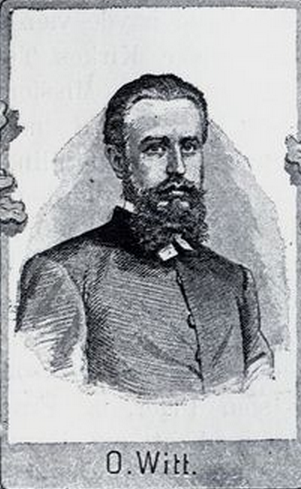 Per Otto Holger Witt (portrait)